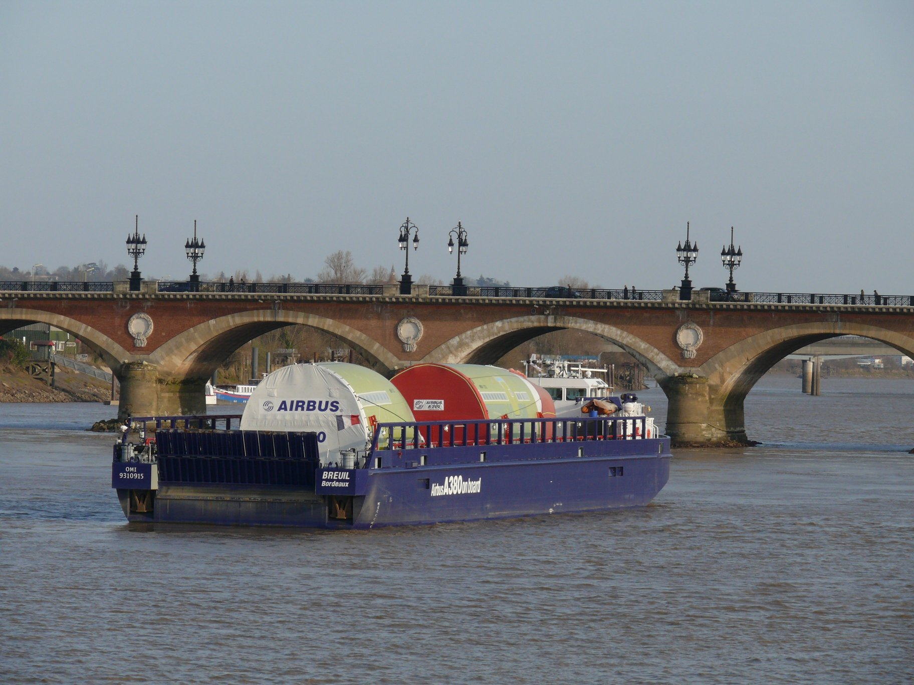 A piece of A380 shipped under a bridge in Bordeaux (Gironde, Aquitaine, France).